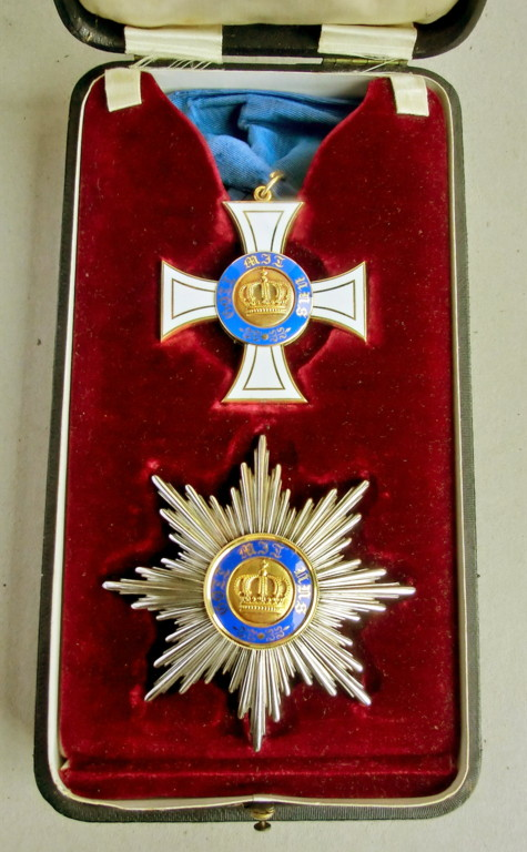 Order of the Prussian crown 1st class with breast star , cased